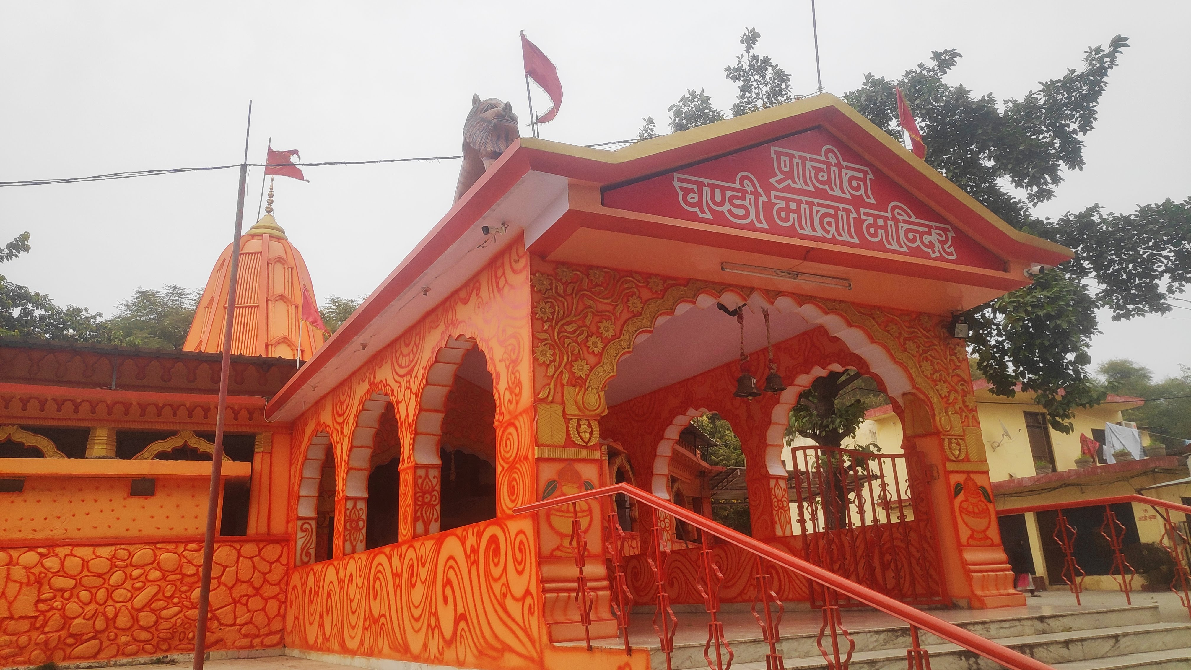 This the front gate of Prachin Chandi mata mandir which is in Panchkula district